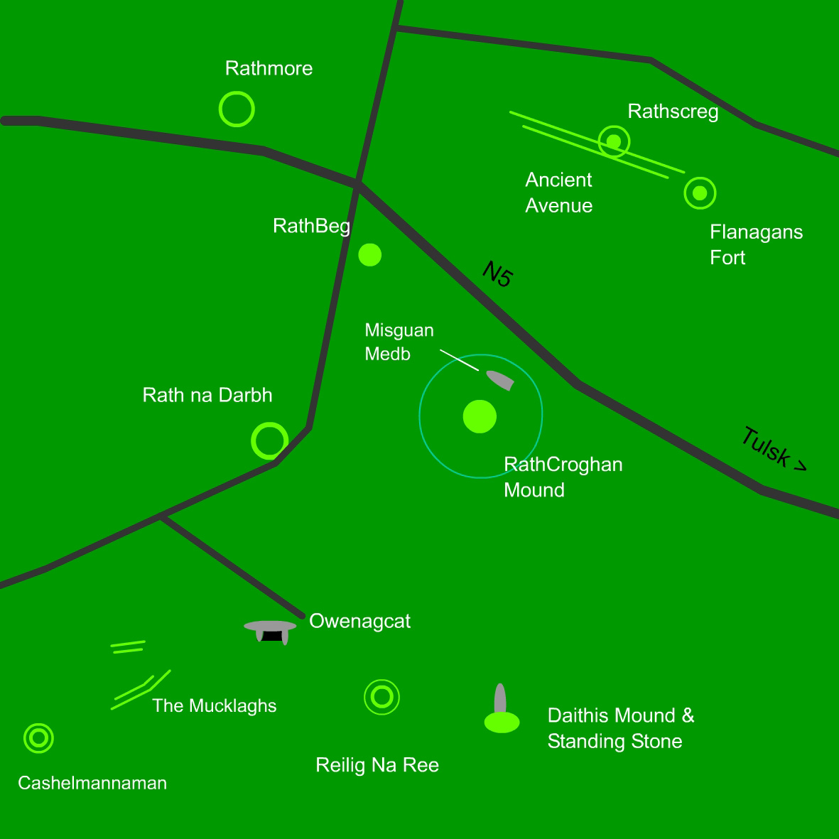 Map of the main sites around Rathcroghan including main & minor roads. Created on Flash Oct. 2007